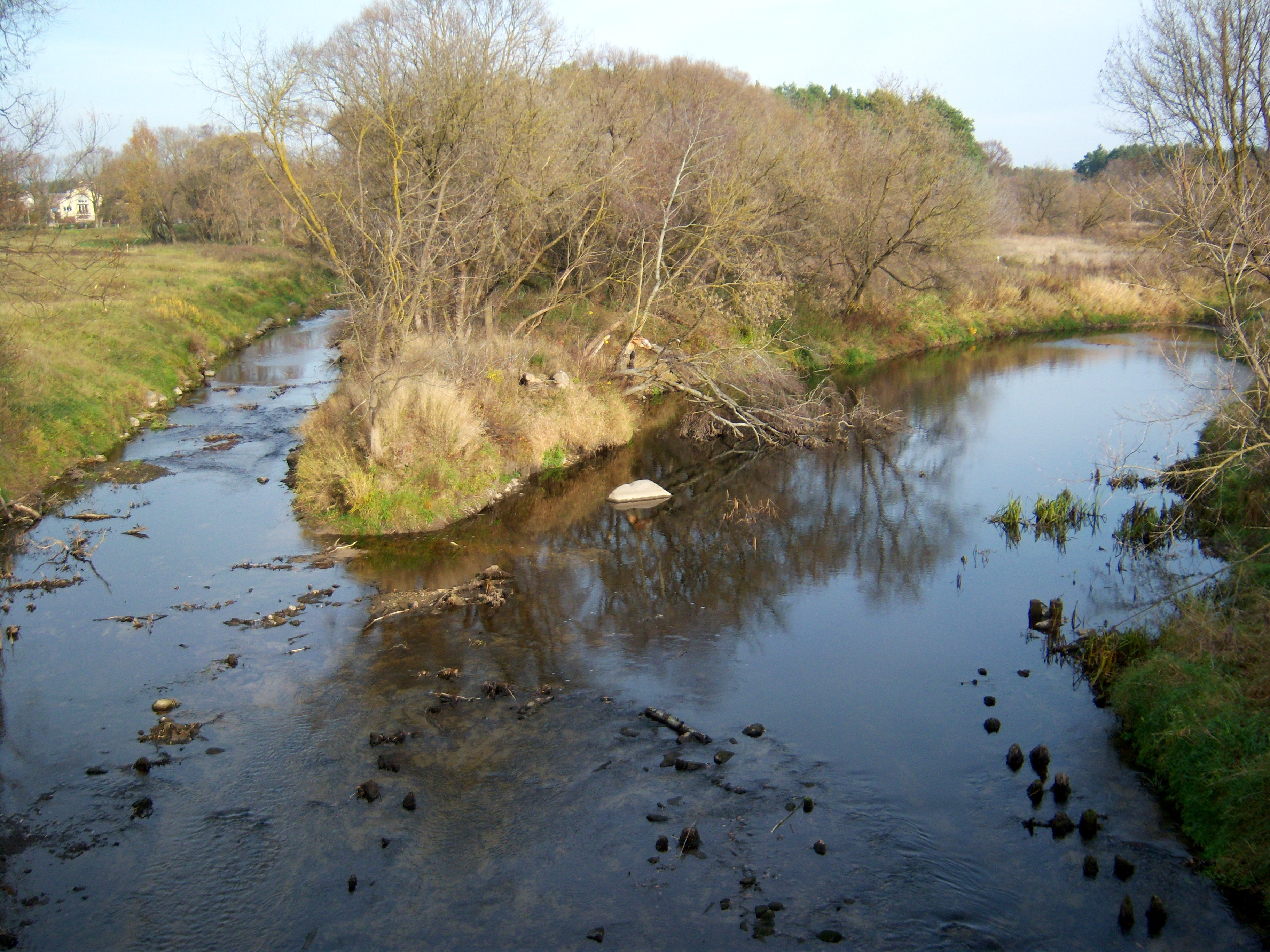 Confluence of Nevėžis and Sanžilė rivers, view from road A9, Panevėžys District, Lithuania